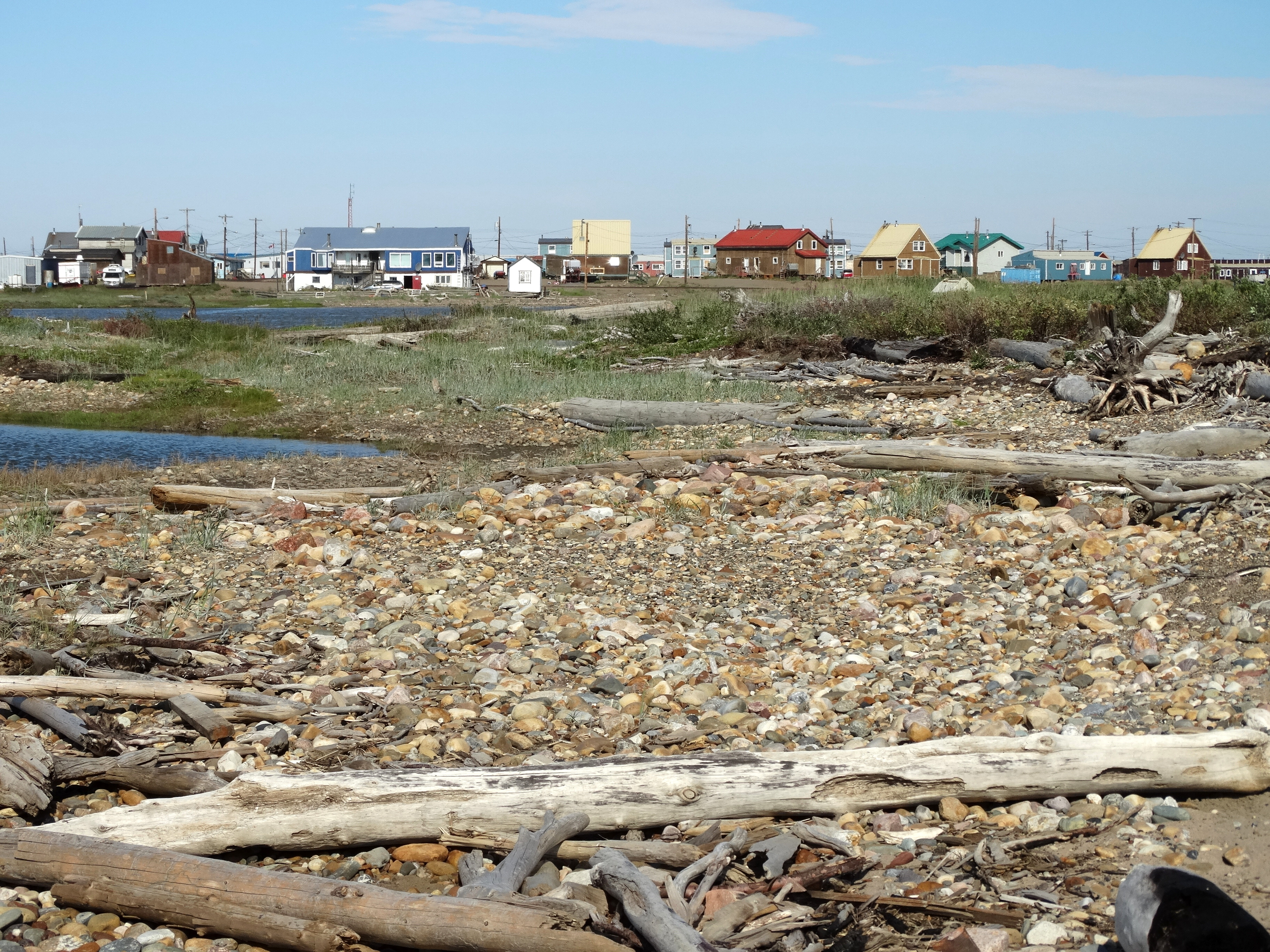 Arctic Ocean Shore and Settlement - Tuktoyaktuk - Northwest Territories - Canada - 01